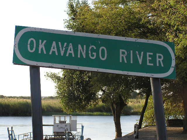 I took this photo of the sign with a car/truck and passenger ferry behind it in August, 2003. (User:DDD DDD)